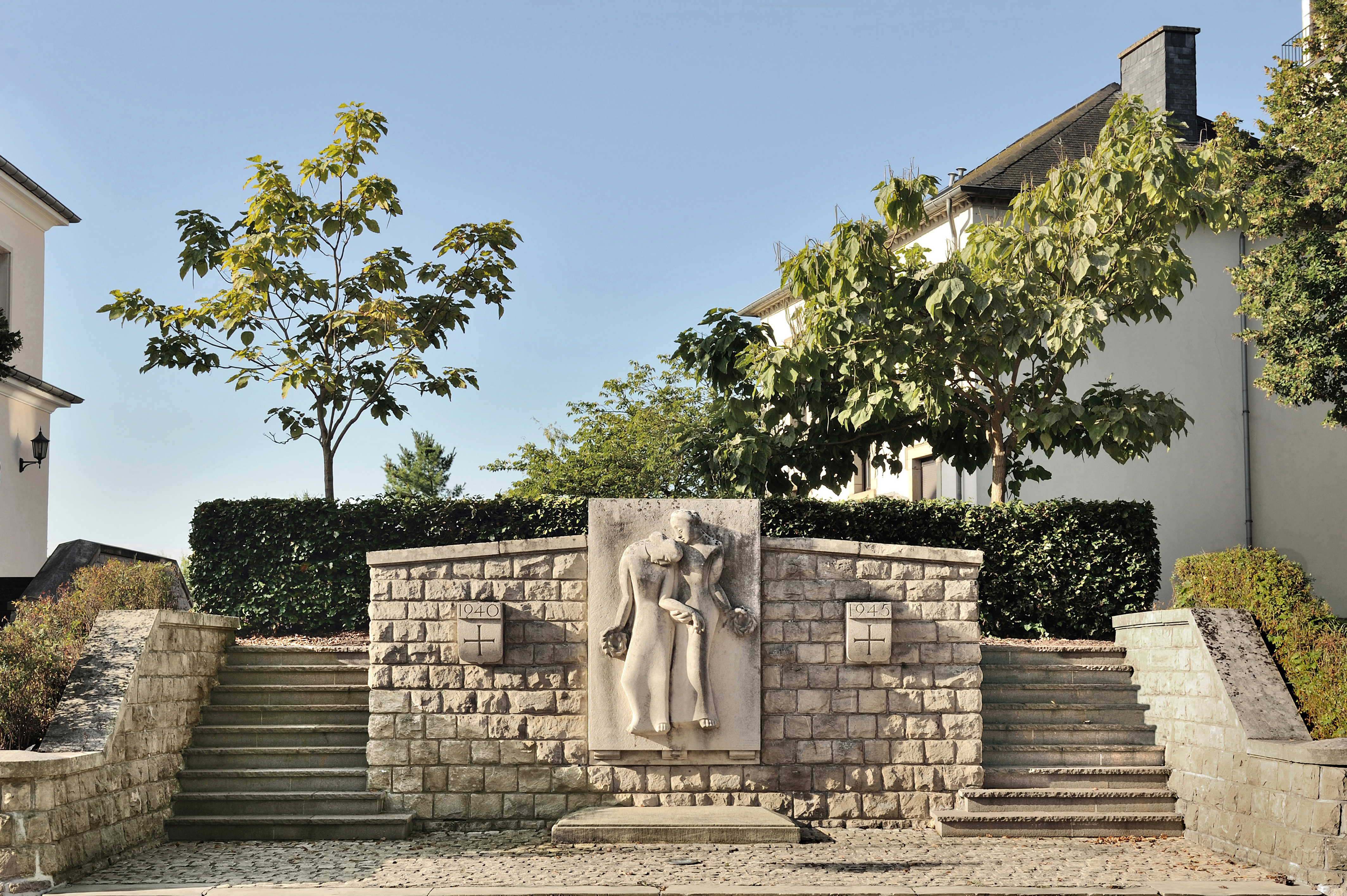 Second World War Memorial at Capellen, Luxembourg